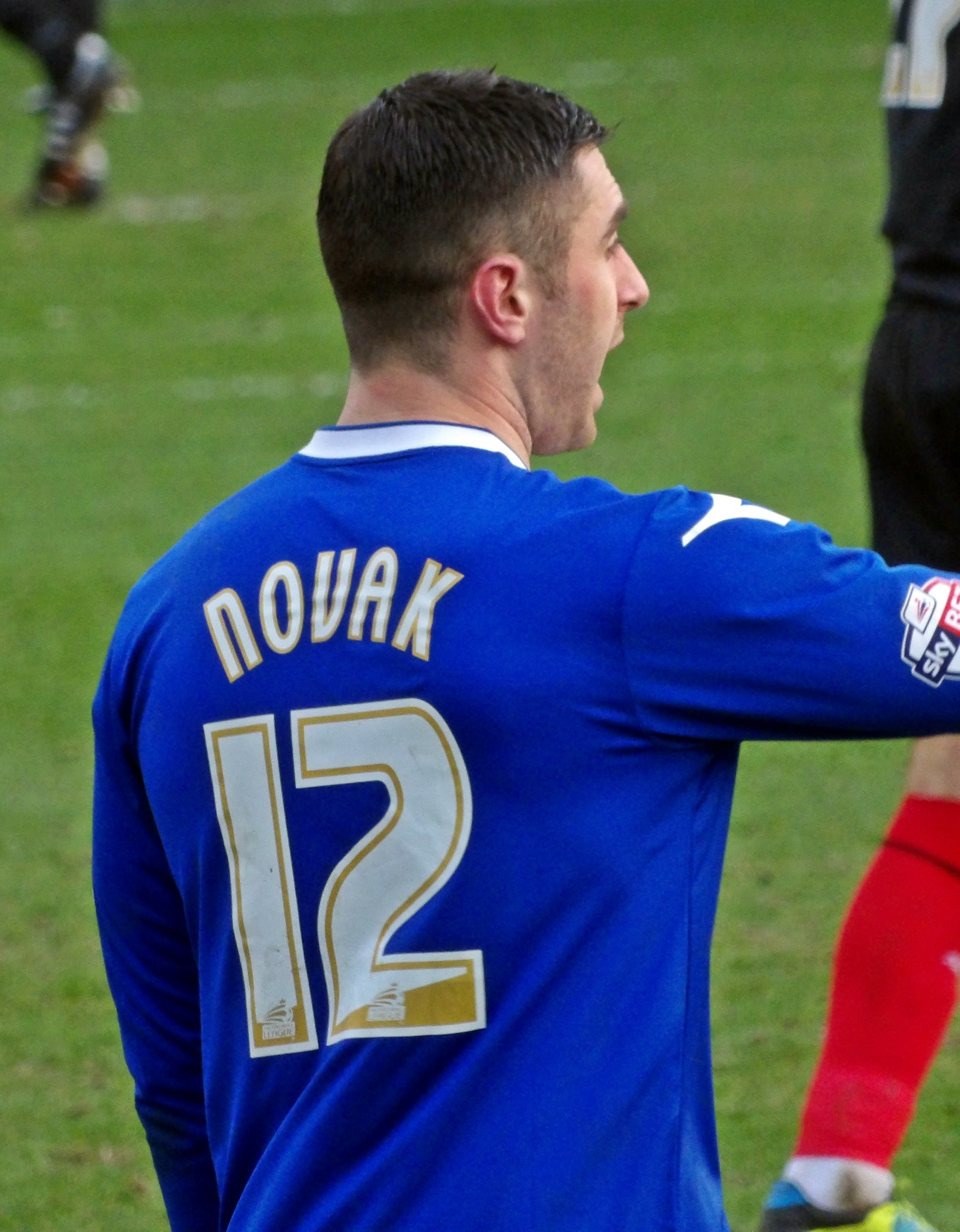 Lee Novak playing for Birmingham City against Huddersfield Town at St Andrew's, Birmingham on 15 February 2014